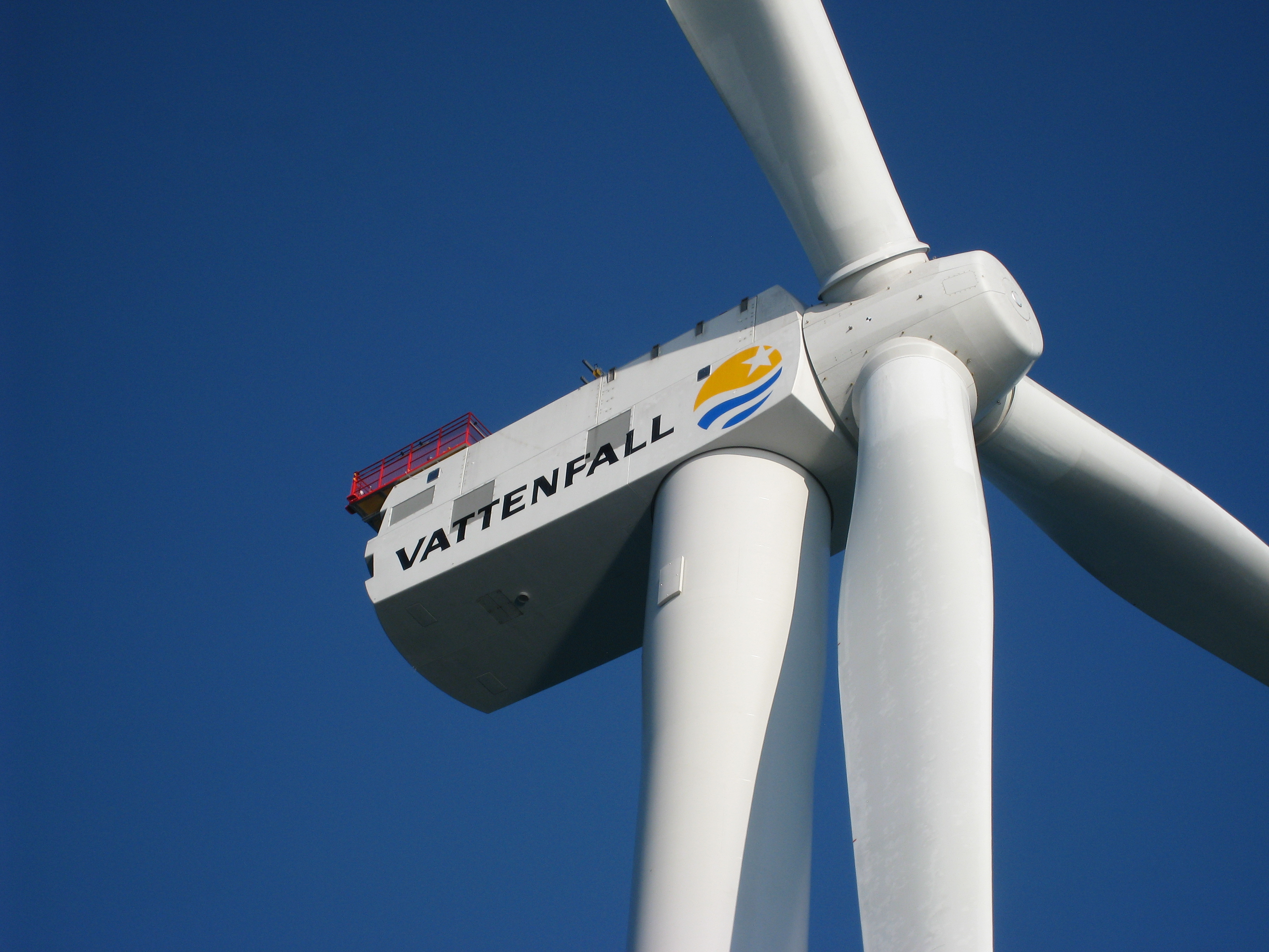 The first REpower 5M wind turbine (OR-D1) after erection on 2011-03-22 at Vattenfall's Ormonde offshore wind farm in the UK.